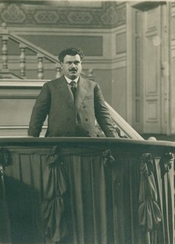 Bulgarian prime minister Aleksandar Stamboliyski in Paris, 1921.